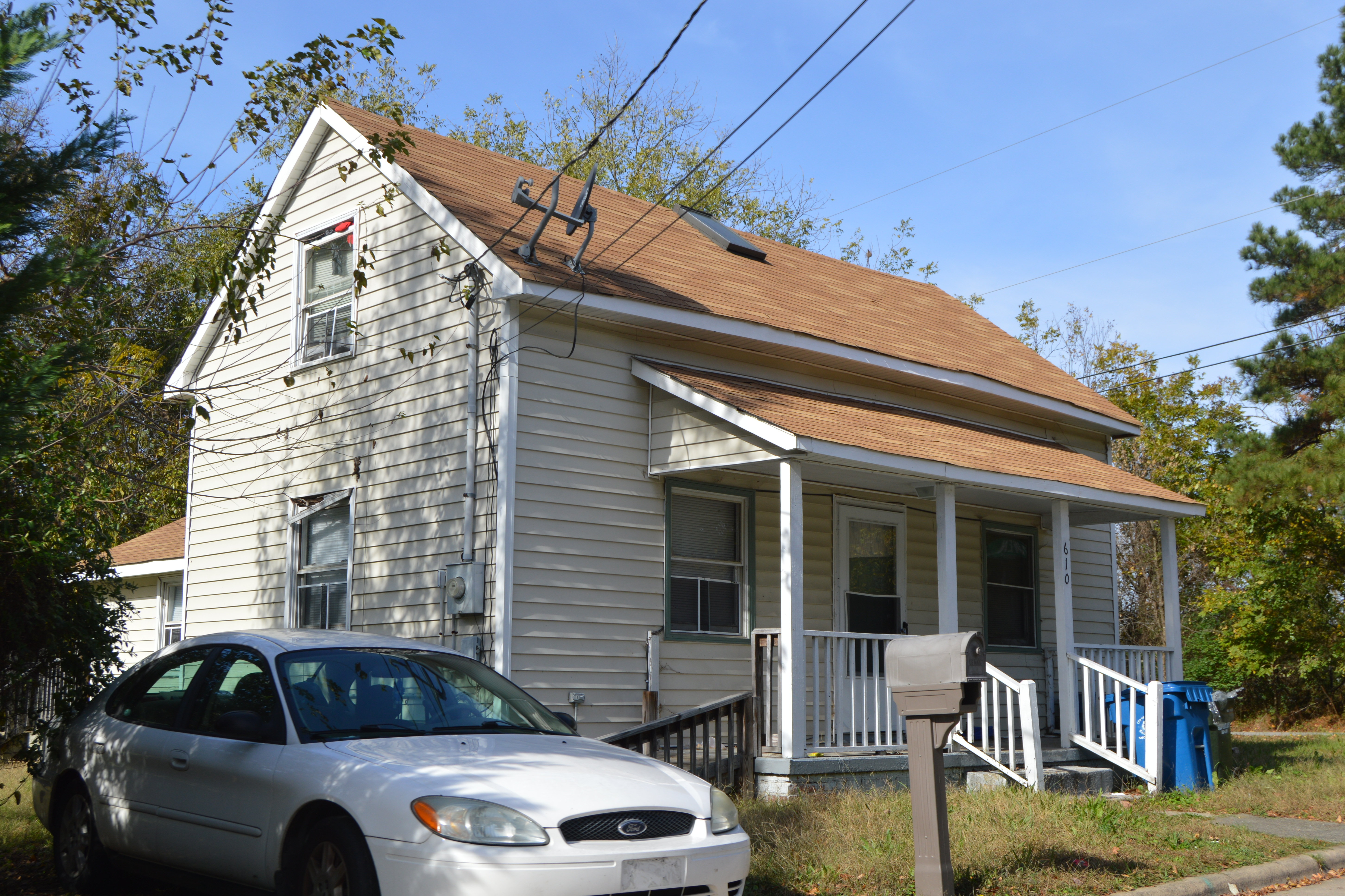 Front and southern side of the house at 610 Reservoir Street in Durham, North Carolina, United States. Like its neighbors, this house is part of the Durham Cotton Mills Village Historic District, a historic district that is listed on the National Register of Historic Places.